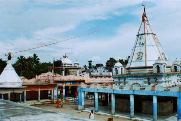 temple singheswar